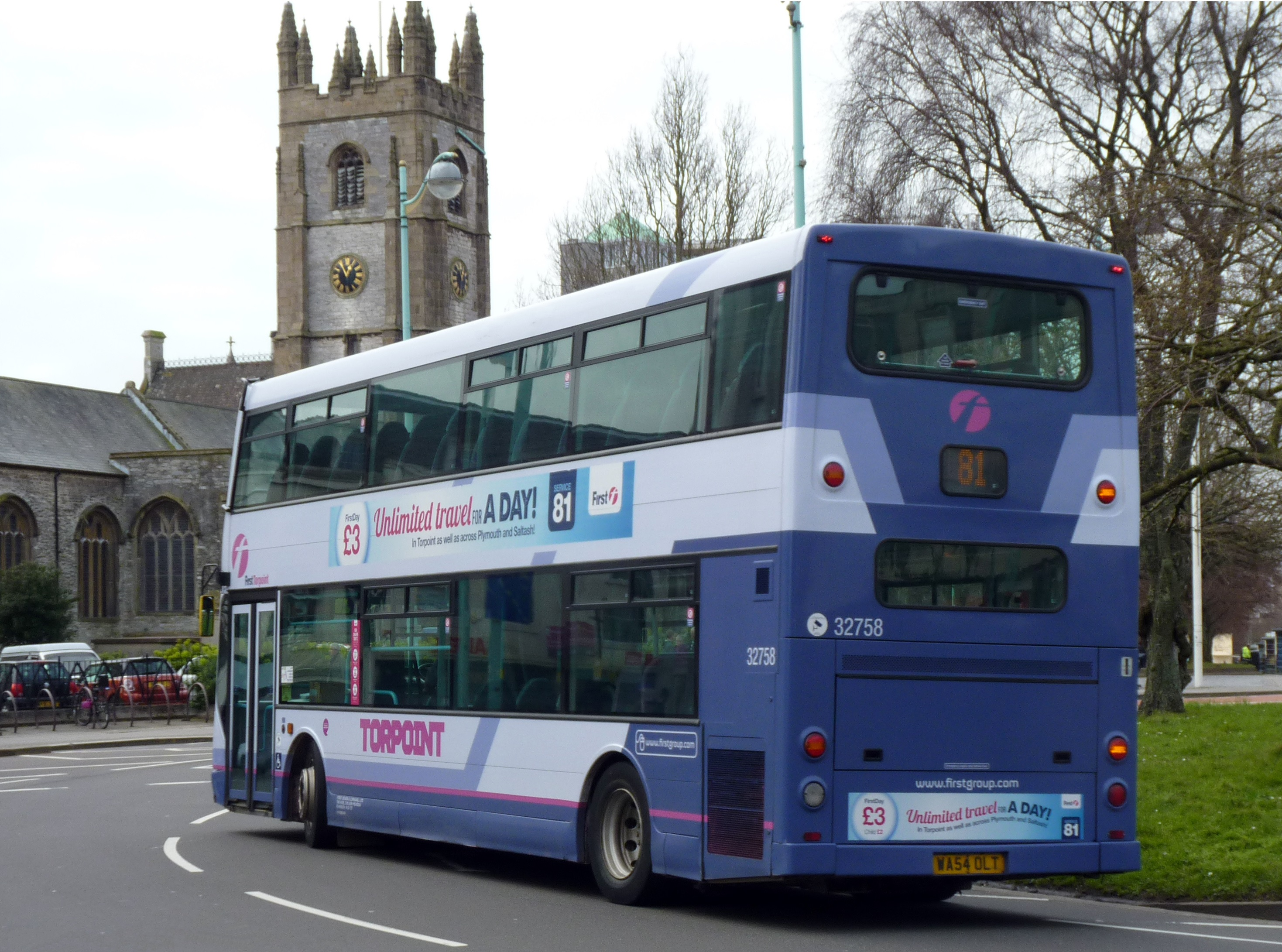 P1150711 First Devon & Cornwall Ltd 32758 WA54OLT Dennis Trident East Lancs Myllenium Lolyne October 13 01 March 2014 FG12: First Torpoint TORPOINT Reg54